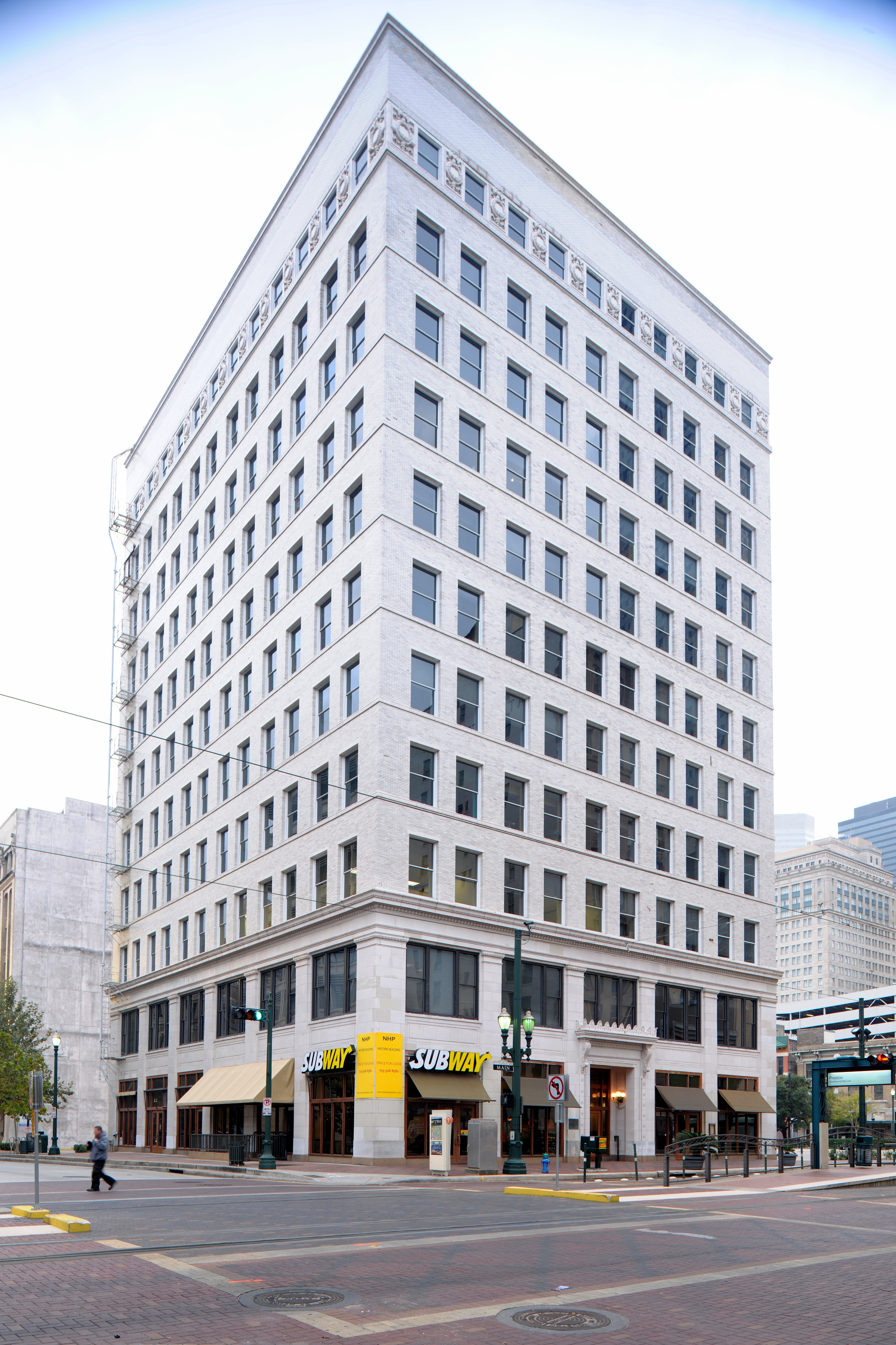 The Scanlan Building at 405 Main St., Houston (Texas, USA) is listed in the National Register of Historic Places, United States Department of the Interior.